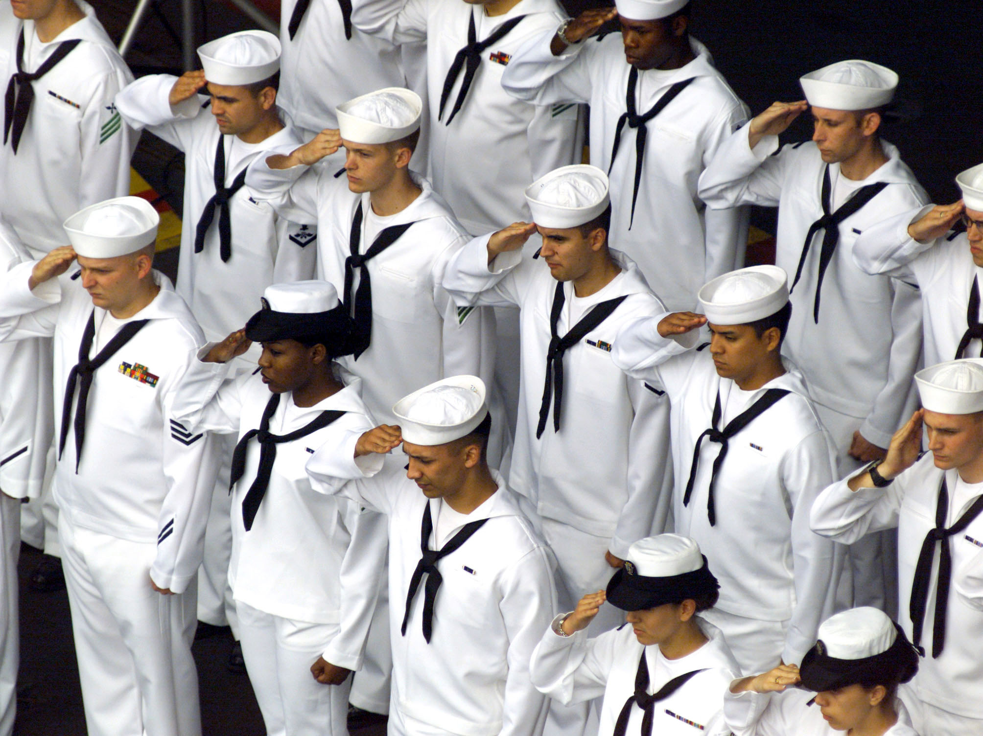 At sea aboard USS John C. Stennis (CVN 74) May 12, 2001 -- Sailors render honors during a burial at sea ceremony. Committing to the sea cremated remains of honorably discharged military personnel is routienly performed aboard U.S. Navy ships at the request of the deceased's family. Stennis is underway conducting scheduled training exercises. U.S. Navy Photo by Photographer's Mate 1st Class Charles Cavanaugh. (RELEASED)